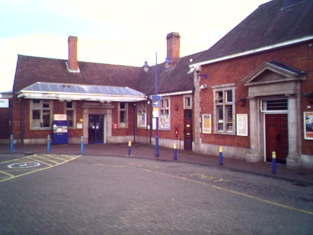 Aylesbury railway station main entrance